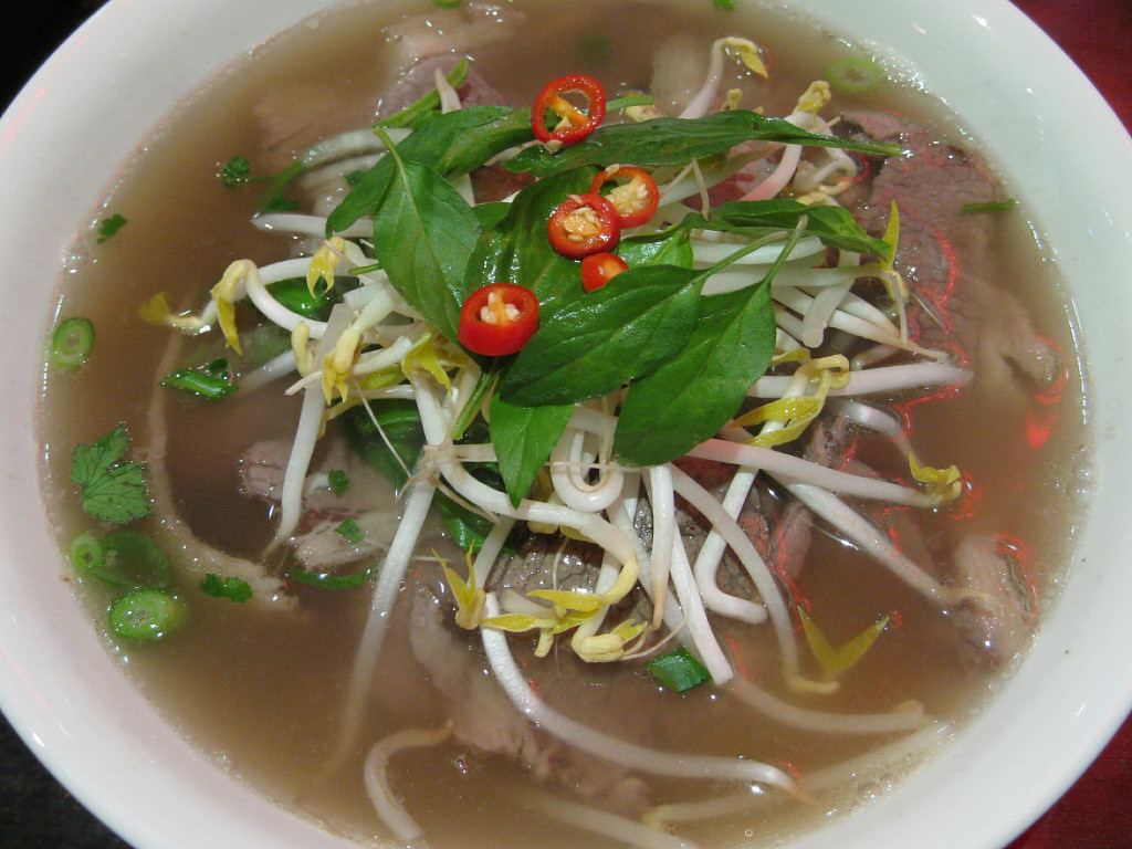 Vietnamese phở noodle soup with thinly sliced beef and beef brisket from Hung Vuong Saigon in Footscray, Victoria, Australia.